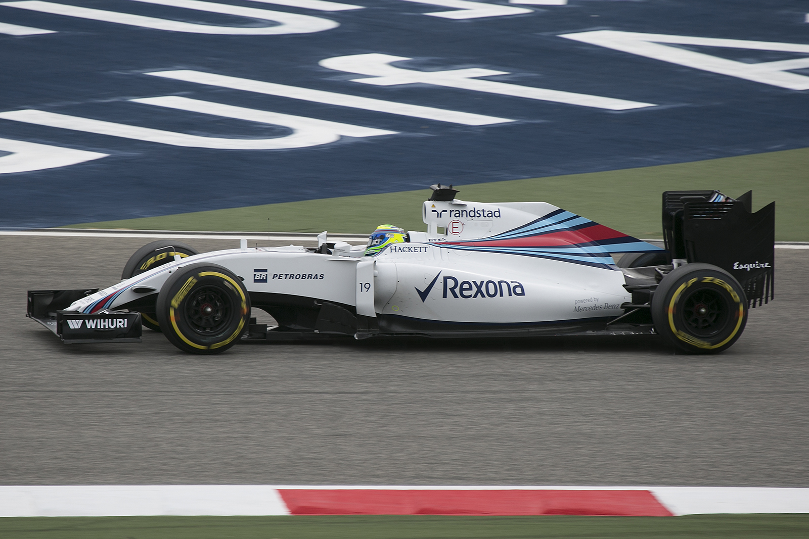 Felipe Massa at the 2016 Bahrain Grand Prix